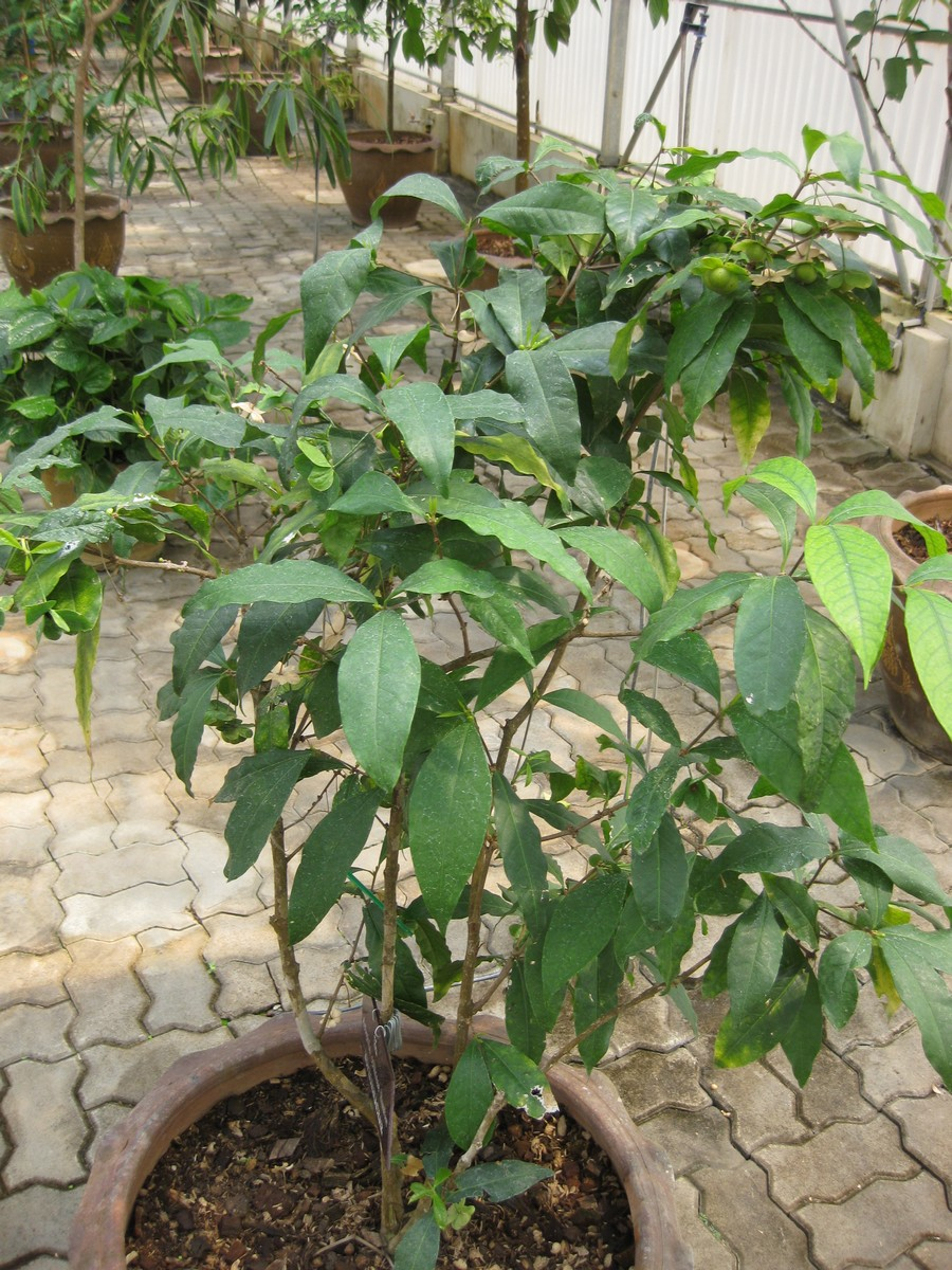 Actephila collinsiae Hunter ex Craib (syn. Actephila collinsae Hunter). Photographed at the Queen Sirikit Botanic Garden (Chiang Mai Province, Thailand) in March